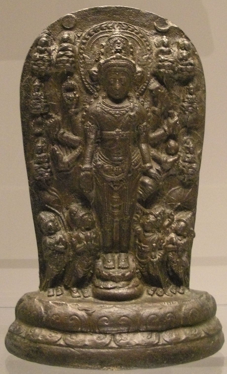 Mandala of Amoghapāśa. eastern Java, Singhasari period, 13th century CE, bronze, 22.5 x 14 cm. Located in the Museum für Indische Kunst, Berlin-Dahlem.